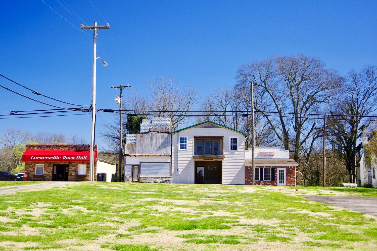 Town Hall (left) and other buildings in Cornersville, Tennessee, United States.